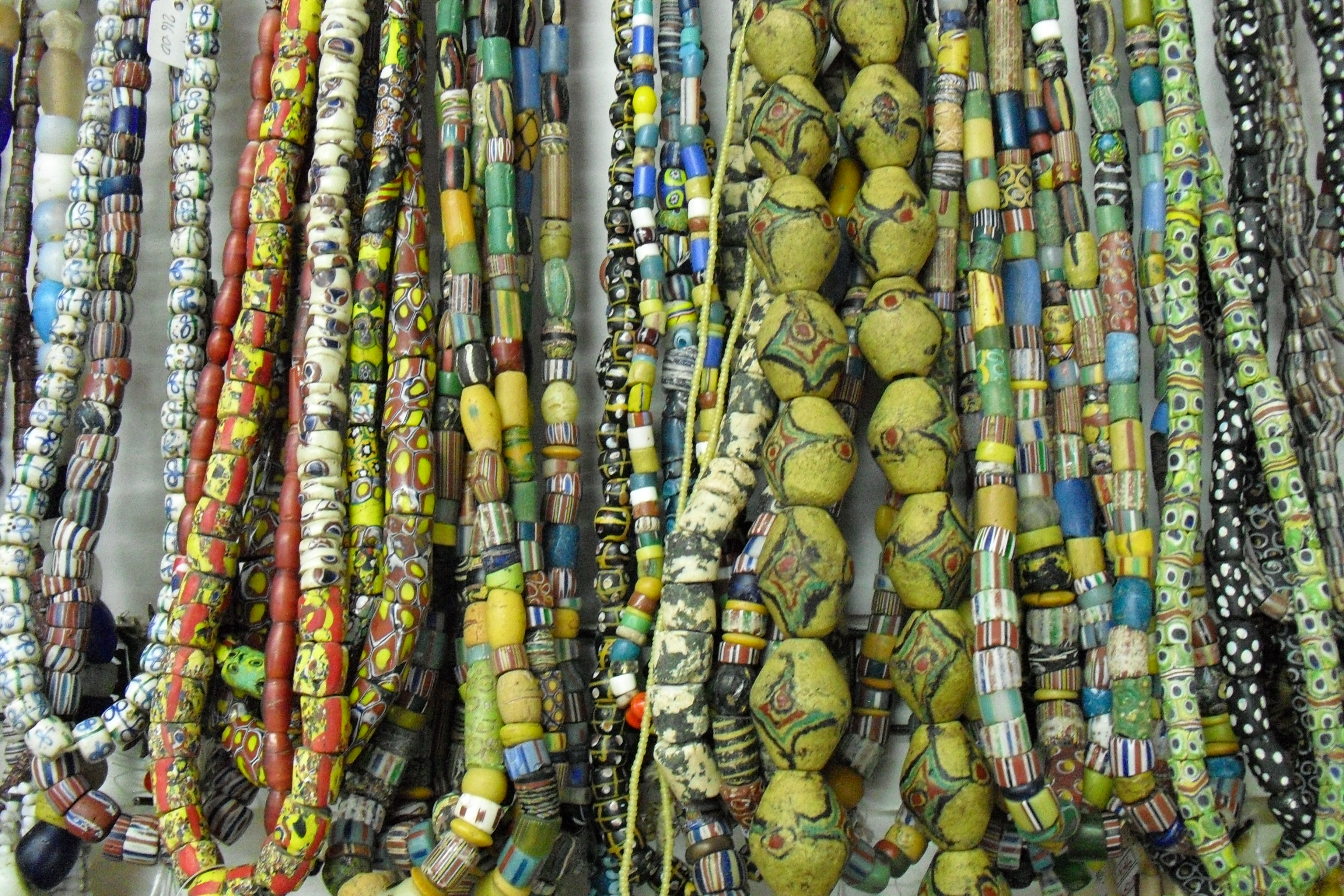 Glass beads traditionally made and worn in Ghana. Picture made at Suntrade Ltd., Accra, Ghana